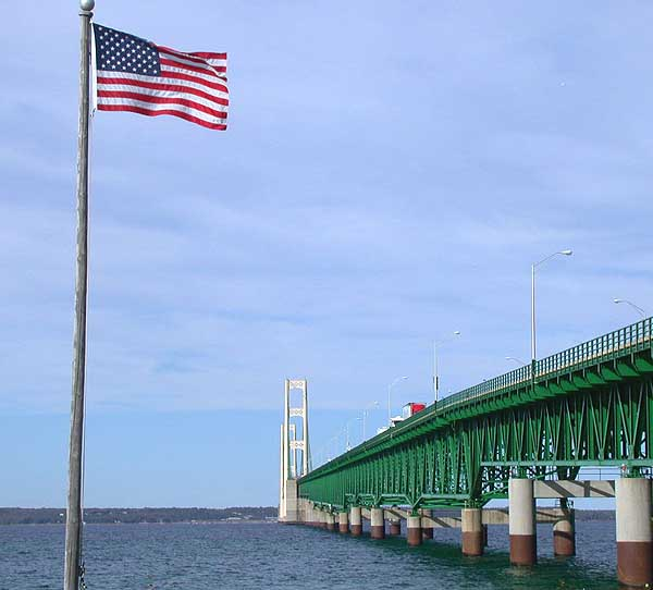 Mackinack Bridge across the Straits of Mackinack looking north